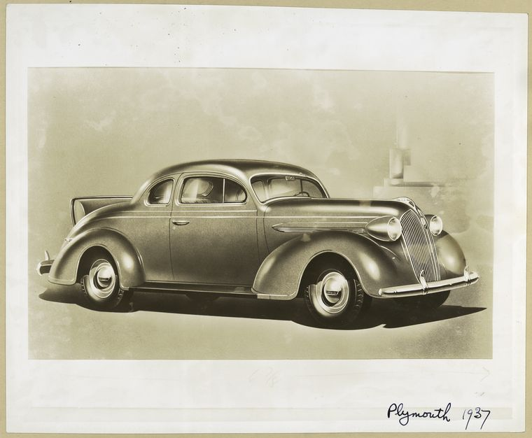 Plymouth 1937 DeLuxe Rumble Seat Coupe Digital ID: 482068 Source: Photographs of General Motors and Chrysler car and truck models, 1902 - 1938. / 1902-1938. Cadillac - Chrysler - De Soto - Dodge - LaSalle - Plymouth. Photographs - Specifications. ( Repository: The New York Public Library. Science, Industry and Business Library. General Collection Division. See more information about and others at Persistent URL: Rights Info: No known copyright restrictions; may be subject to third party rights (for more information